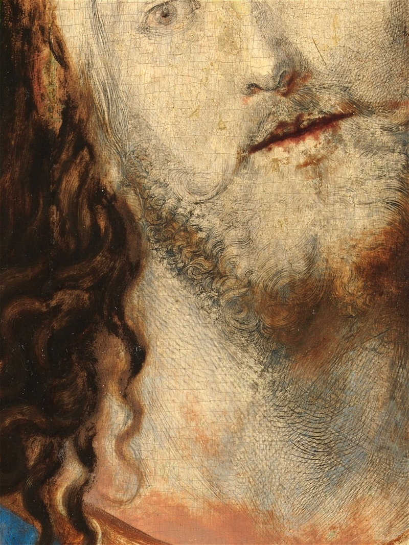 Detail of Salvator Mundi, by Albrecht Dürer (1471 - 1528). Unfinished, oil on wood.